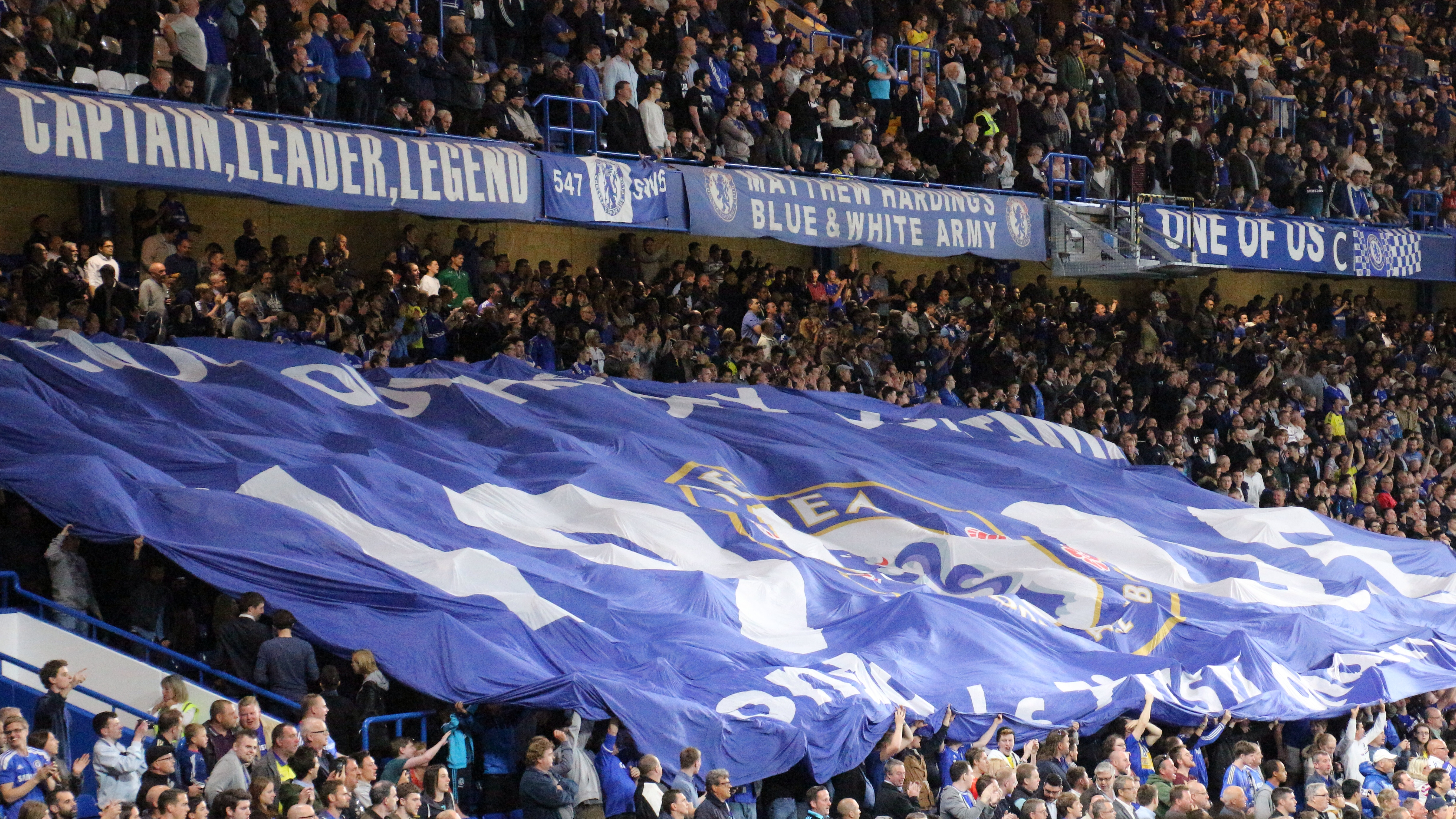 Chelsea 2 Bolton Wanderers 1 Chelsea progress to the next round of the Capital One cup